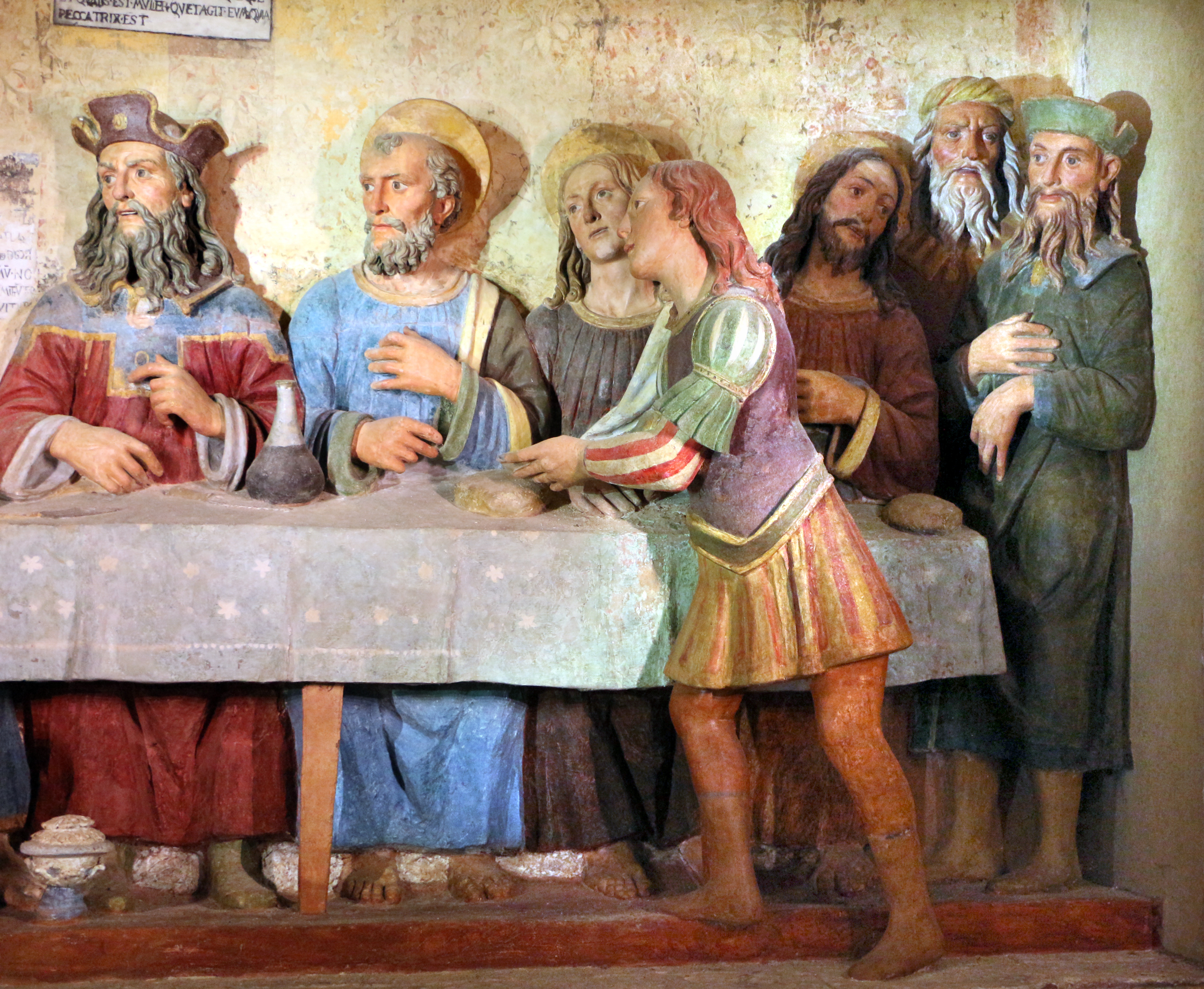 San Vivaldo Sacro Monte